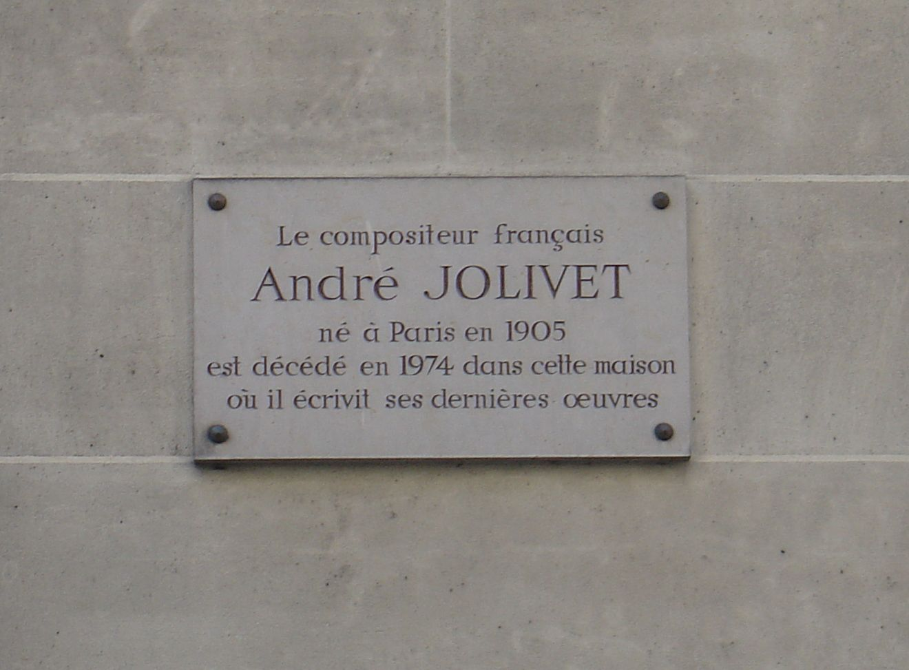 The name plate of André Jolivet, French composer, at 59 Rue de Varenne, 75007 Paris. Created on March 26, 2007, by myself, 30rKs56MaE